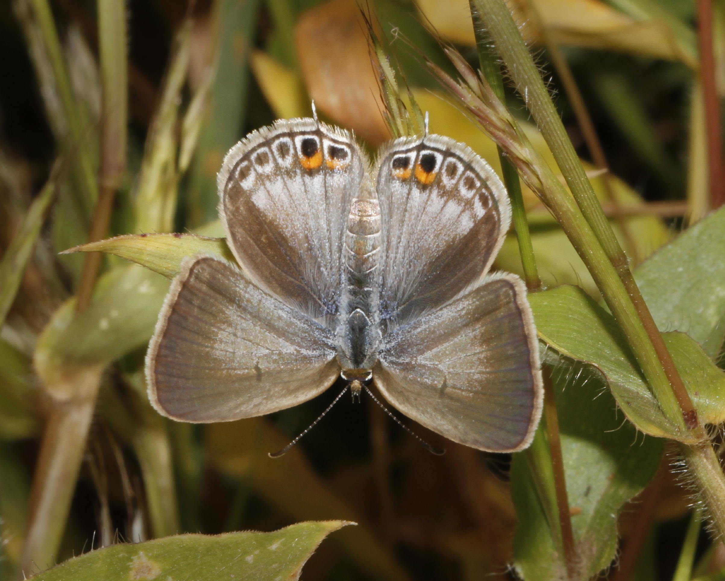 Euchrysops cnejus cnejus – Gram Blue butterfly female upperside at Satara, Maharashtra, india